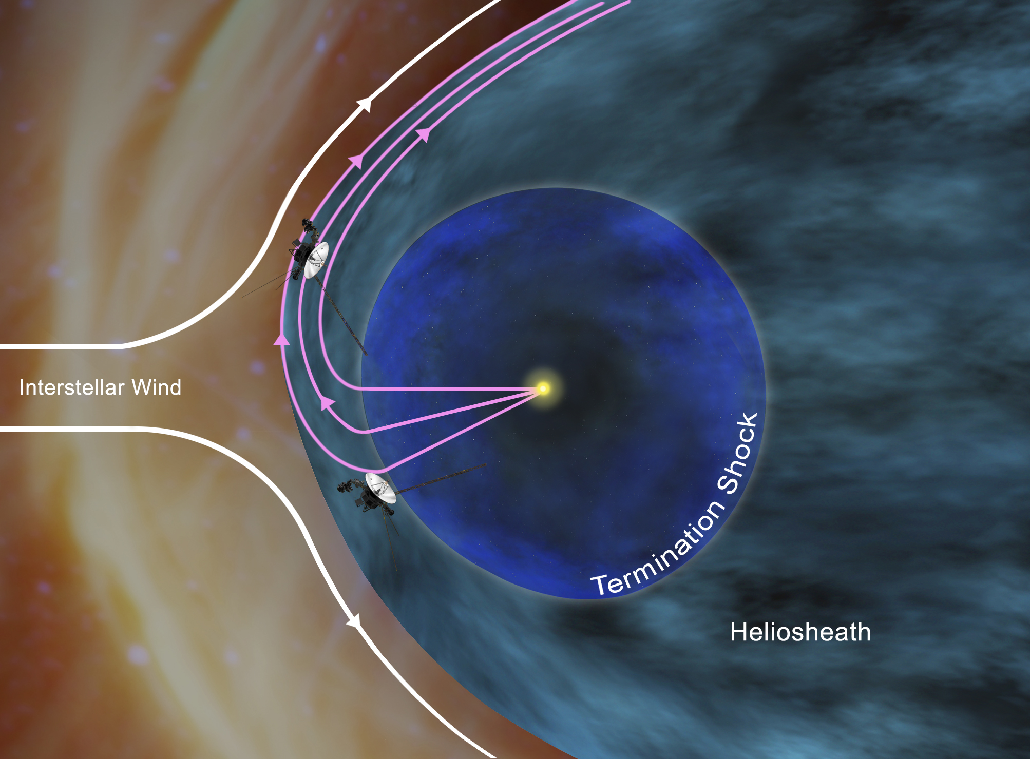 On July 21, 2012, the magnetometer instrument indicated that Voyager 1 had entered a region where the wind is from the southern hemisphere. Scientists interpret this to mean that the spacecraft is in the final region before reaching interstellar space because the southern wind streams have to flow out and around all of the northern wind to reach Voyager 1's location. In this illustration, Voyager 1 is above center and Voyager 2 is below center.